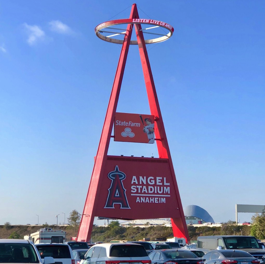 The Big A in 2018, newly repainted and refurbished.